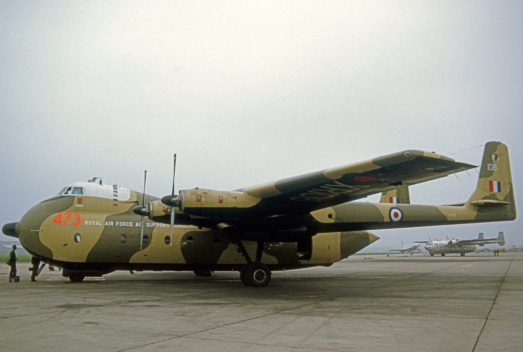 Armstrong Whitworth Argosy C.1 XR106 114 Squadron RAFASC Le Bourget 1971